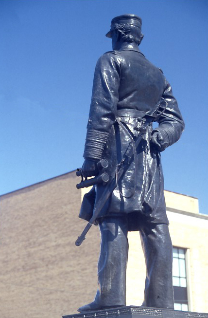 Statue of David Farragut by Charles Niehaus in Muskegon.